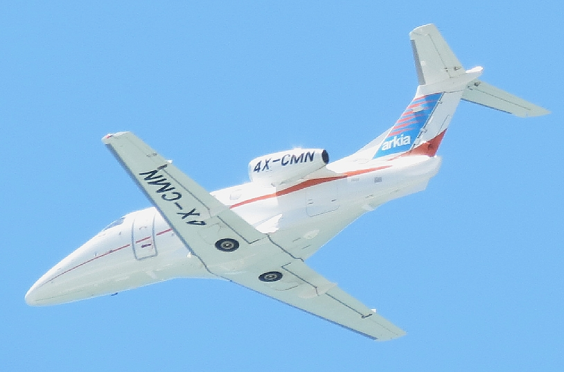 Embraer EMB-500 Phenom 100 in Arkia livery